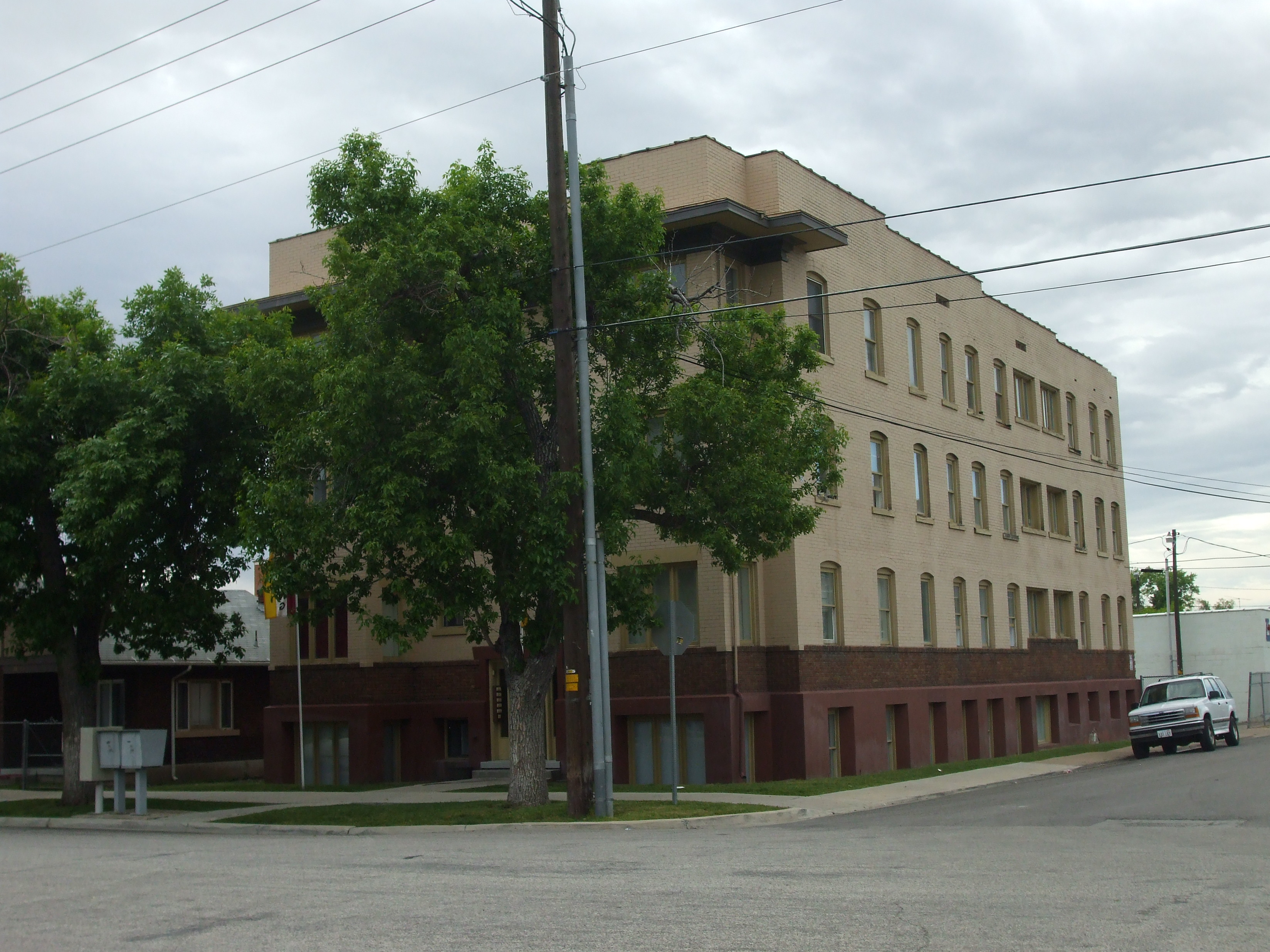 The Barnhart Apartments, a historic building in Ogden, Utah, United States.